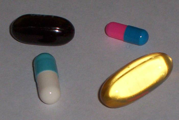 medication in gelcaps (gelatin capsules)